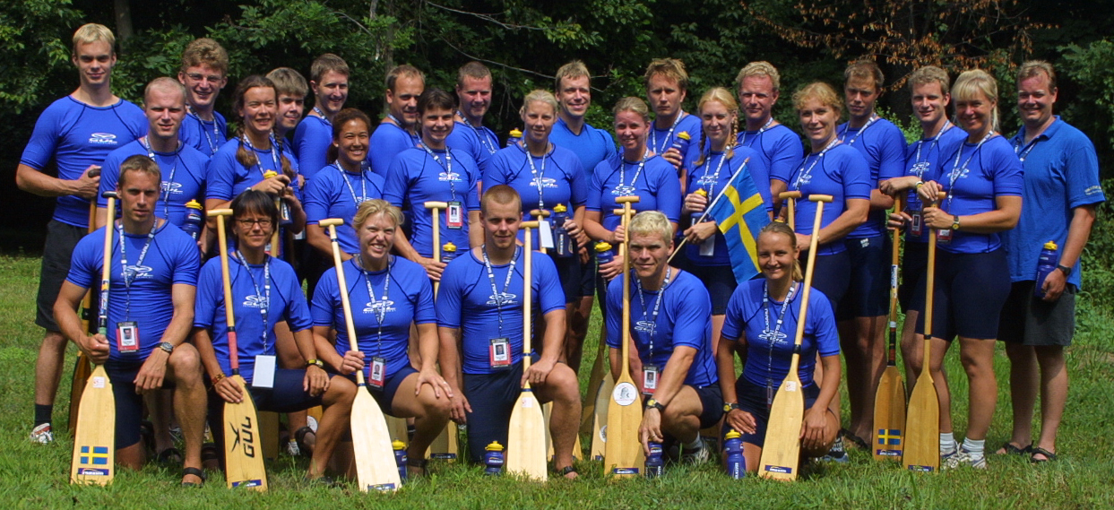 (Swedish National Team at the IDBF World Dragon Boat Championships in Philadelphia, USA 2001)